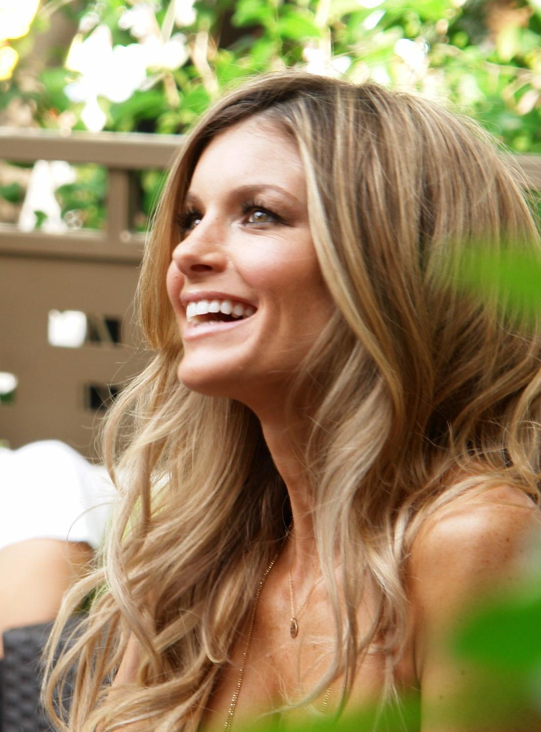 American model Marisa Miller at the Mirage Hotel and Casino in Las Vegas, Nevada